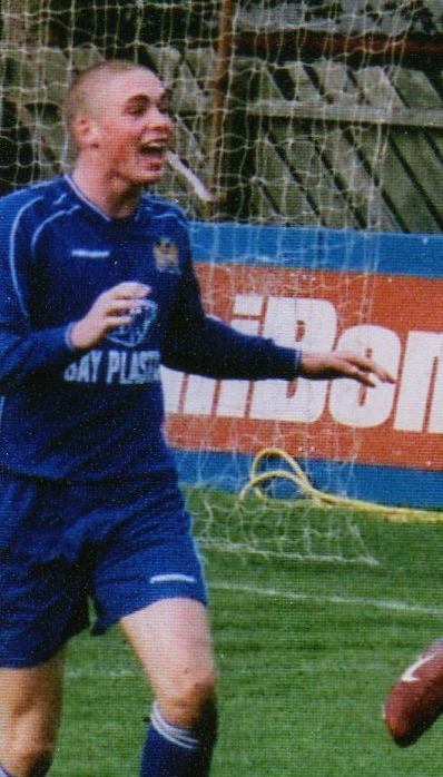 Richard Brodie playing for Newcastle Benfield against Guiseley at Nethermoor Park, Guiseley on 14 October 2006